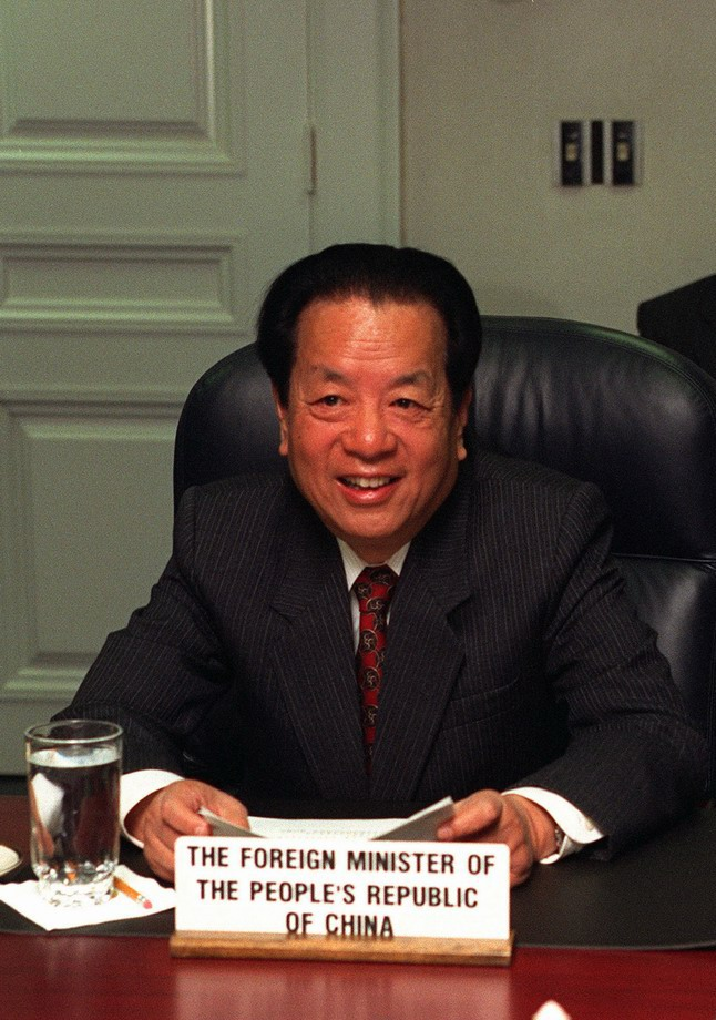 Foreign Minister Qian Qichen, of the People's Republic of China, meets with Secretary of Defense William S. Cohen in the Pentagon to discuss matters of mutual interest on April 29, 1997. source